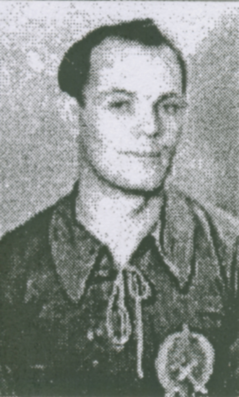 Jenő Buzánszky was the one of best defender in the whole world.